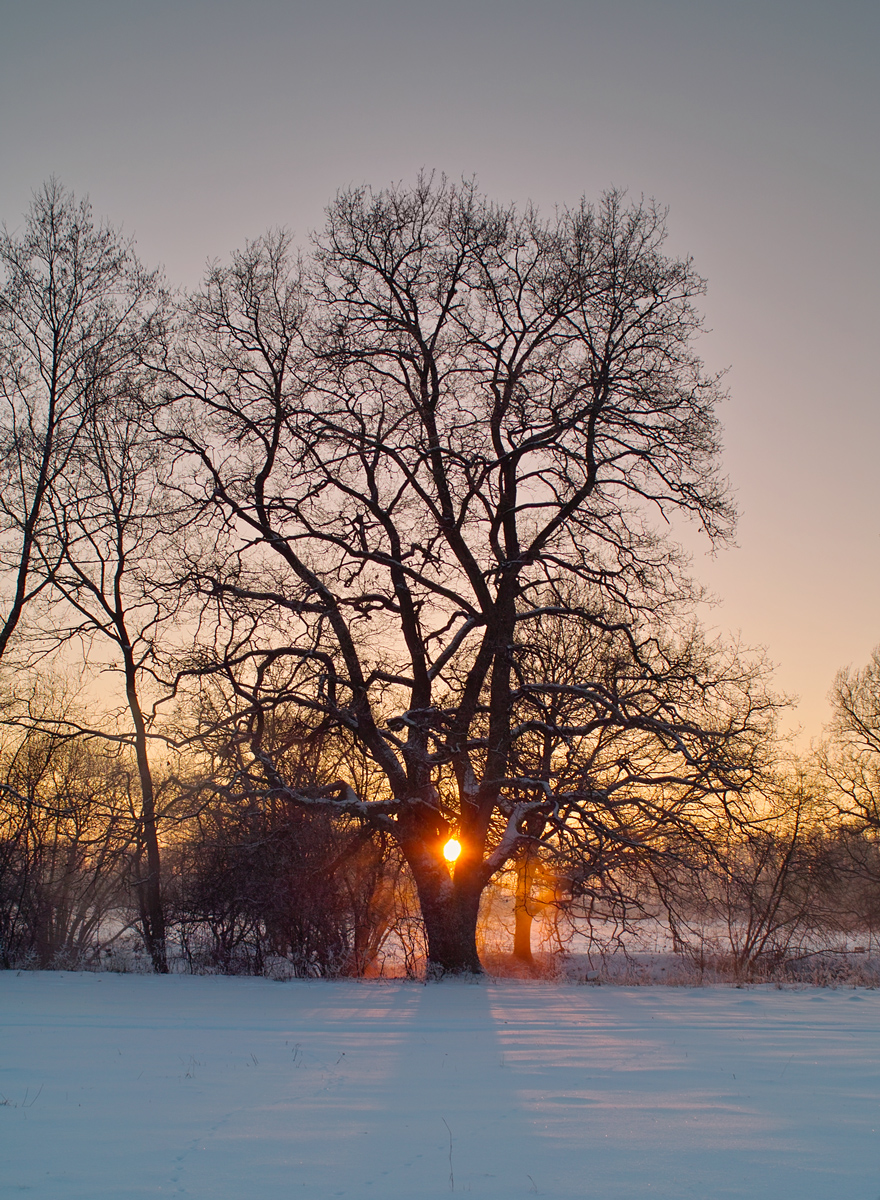 Oak tree in English park near castle Jemcina